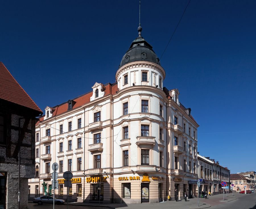 Bast Hotel in Inowrocław, Poland